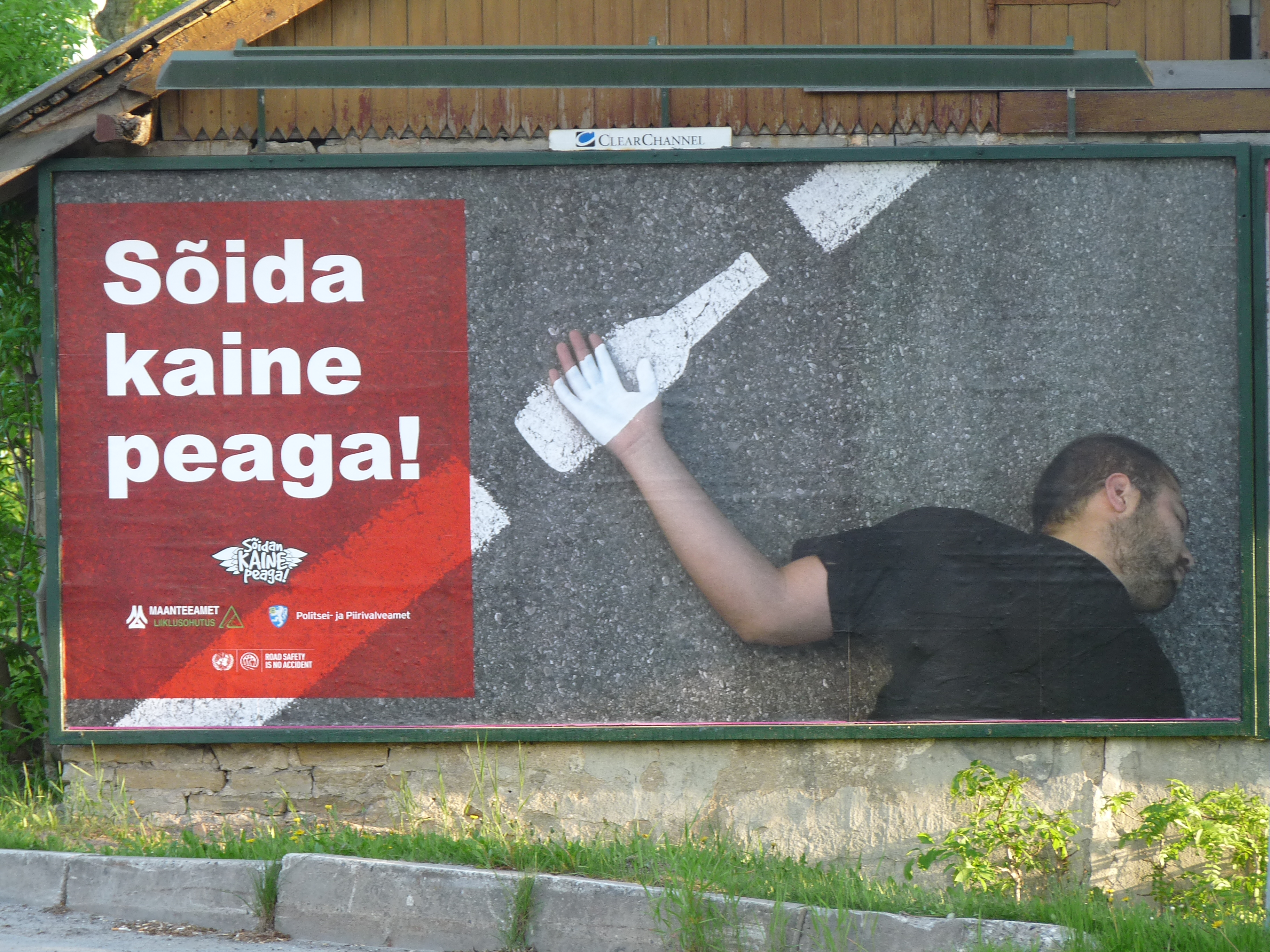 Social advertising in Estonia